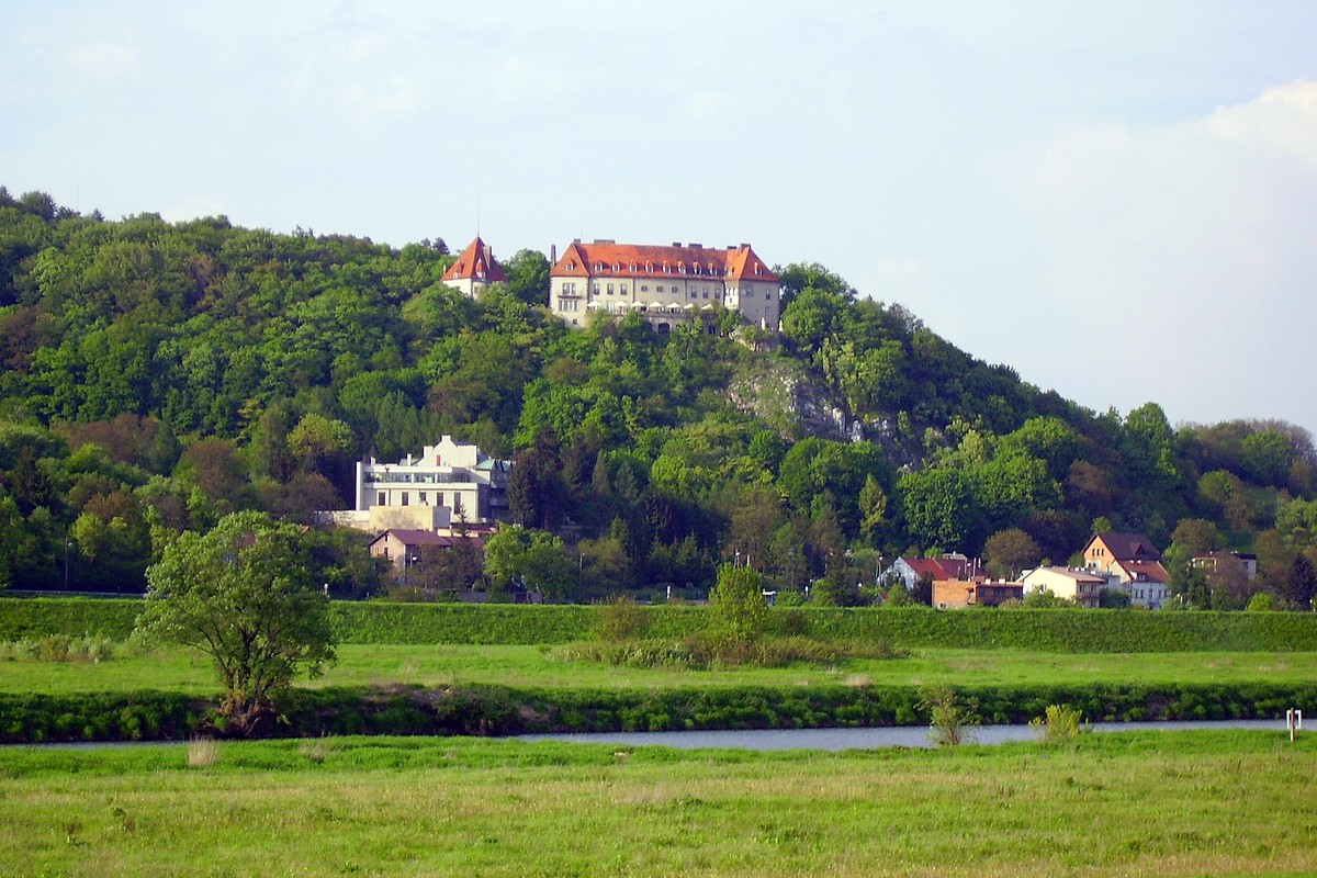 View at Przegorzaly Castle in Cracow. Taken from southern side of Vistula.